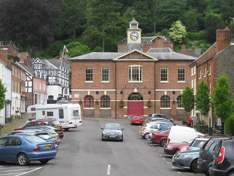 TOWN HALL. The last remaining Georgian Town Hall in Montgomeryshire. The red brick Town Hall forms a striking termination to Broad Street, although the centre of the building is offset to the north of the line of the street. Built by William Baker of Audlem, 1748-51, for Henry Arthur Herbert, 1st Earl of Powis, for whom, Baker had also in 1745 provided designs for a new Town Hall at Bishop’s Castle. The original design of the Town Hall is shown in a drawing of 1784 by the Rev. John Pridden in the National Library of Wales . This shows the ground floor market space of the Town Hall open with five bay arcades. Pridden shows the central bay, facing Broad Street projecting forward with a larger arcade arch and above this a lunette window. The upper floor which housed the Council Chamber and Court of Great Sessions and Quarter Sessions. In 1828 Thomas Penson, at the expense of Lord Clive, raised the roof level over the first floor and introduced sash-windows, rebuilding the pedimented gable, but without the coat of Arms. An extension was added at the rear with rounded quadrant corners and was tied in by extending the string courses around the building and adding a matching pediment to that at the front. The arcade arches were infilled with glazing in 1887, The clock tower was added in 1921. The predecessor of this building was probably a half-timbered structure, which the Speed map of 1610 shows was sited, lengthways, in the middle of Broad Street